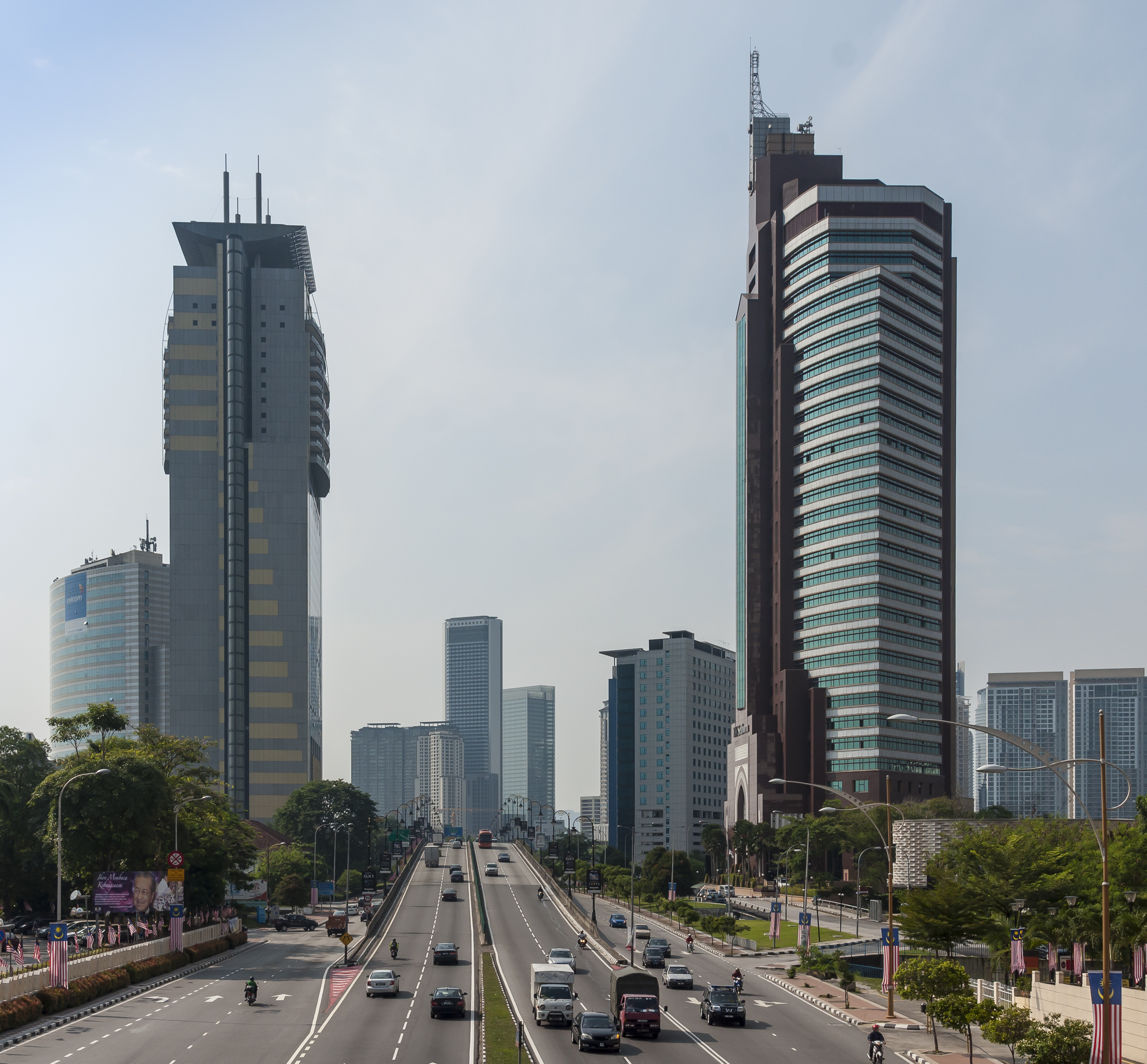 Kuala Lumpur, Malaysia: Menara marinara (left) and Menara TH-Selborn (right), seen from the pedestrian flyover over Jalan Tun Razak next to Perpustakaan Negara Malaysia (National Library of Malaysia)